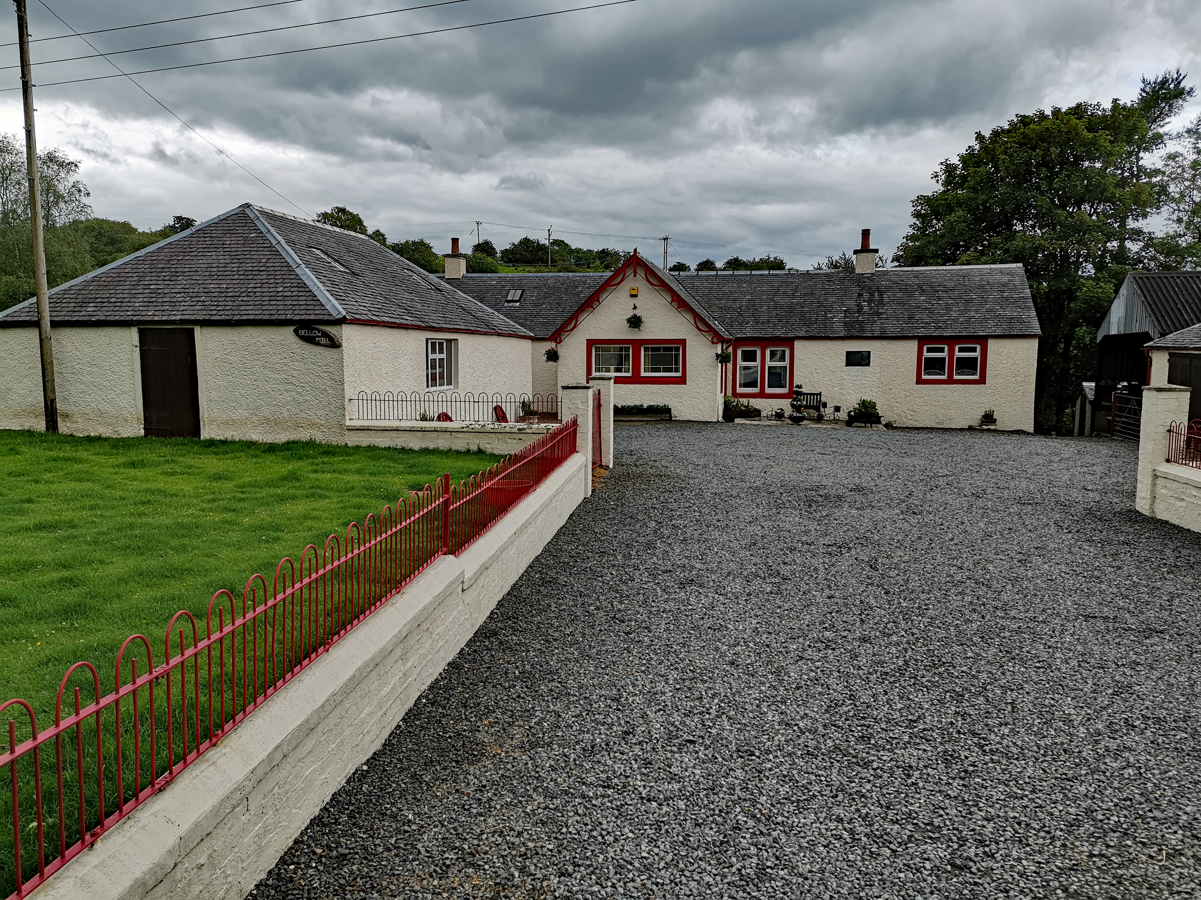 Bello Mill Cottage, birthplace of William Murdoch (Lugar, Ayrshire, Scotland, UK)